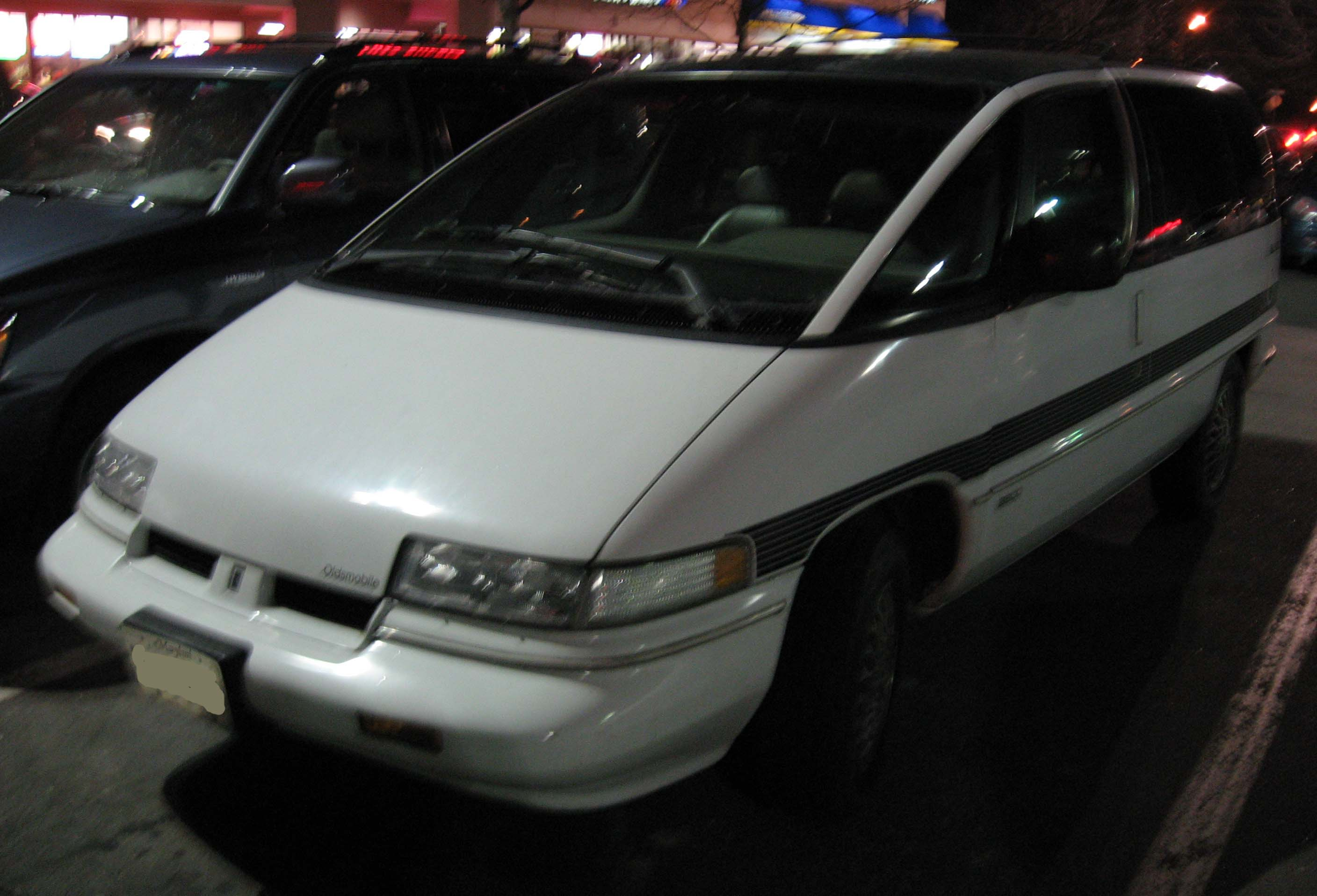 1990-1992 Oldsmobile Silhouette photographed in USA.